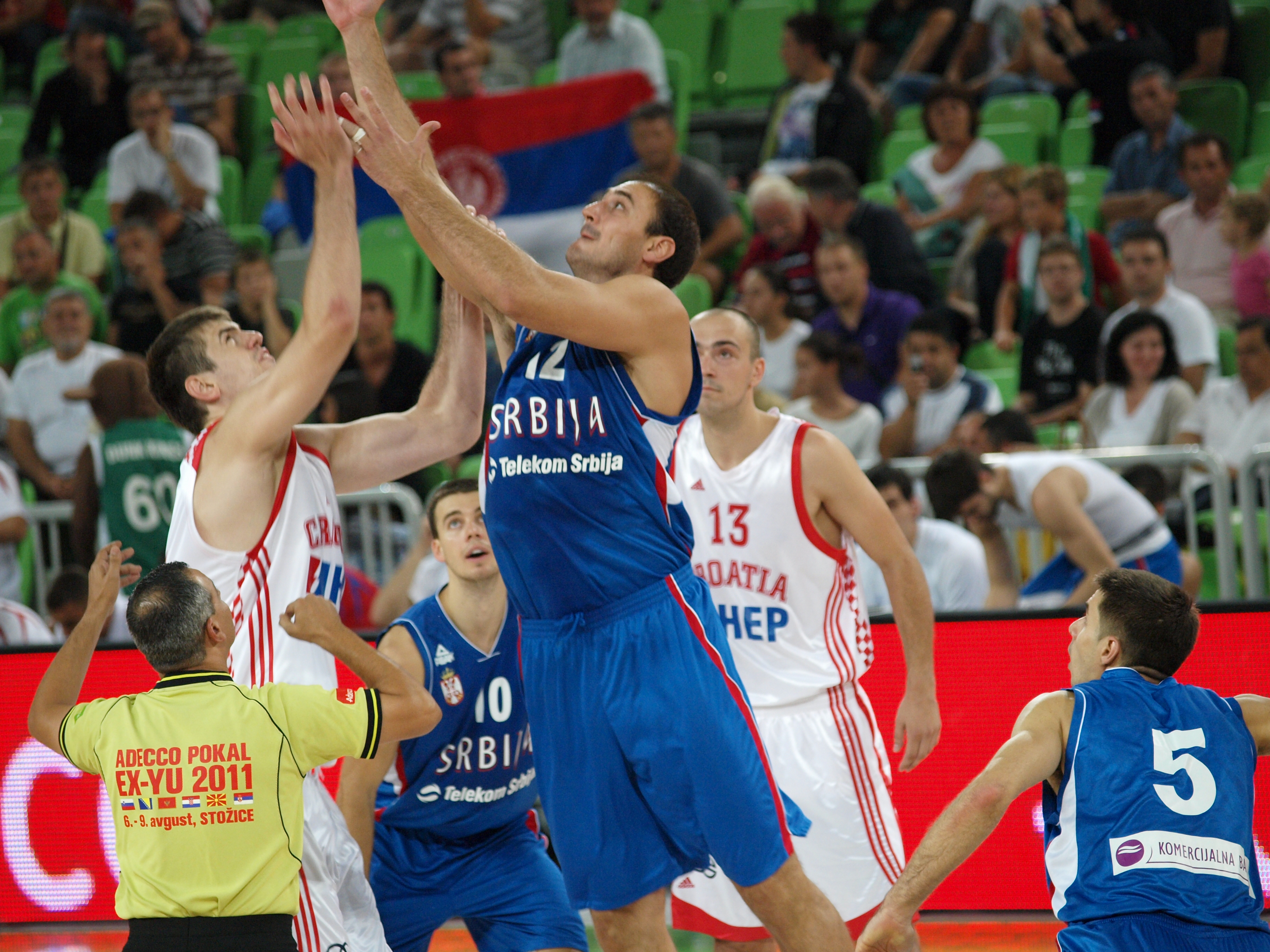 Nenad Krstić, final Adecco cup 2011, Serbia vs Croatia, Serbia become won the tournament.